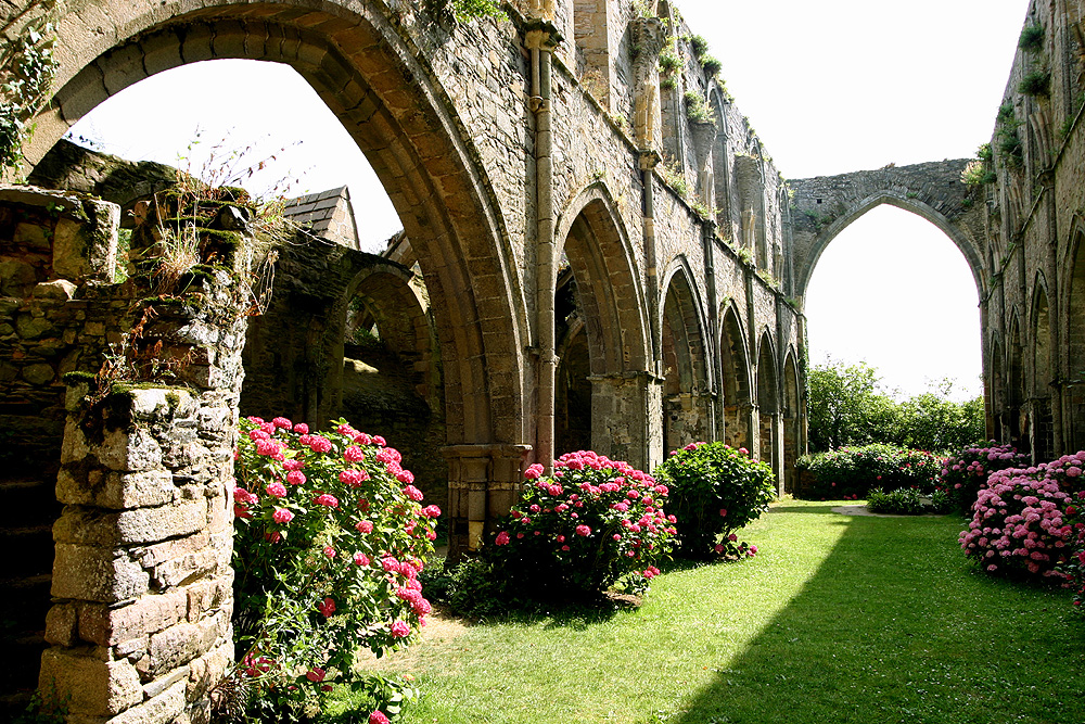 Abbaye de Beauport, Paimpol, Bretagne (France)